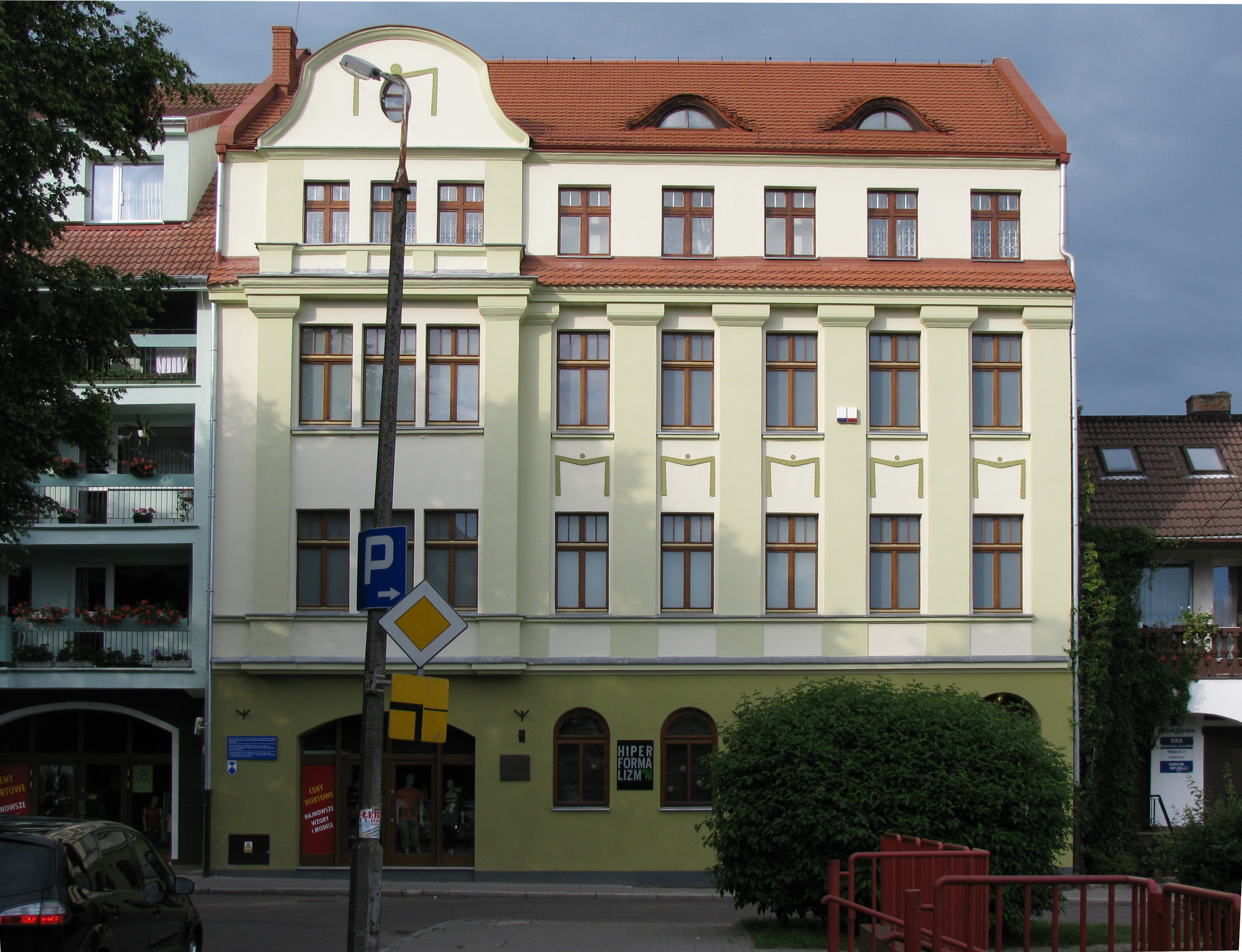 Paul Nipkow house in Lębork (befor 1945 Lauenburg), Poland today, in year 2009, Młynarska Street